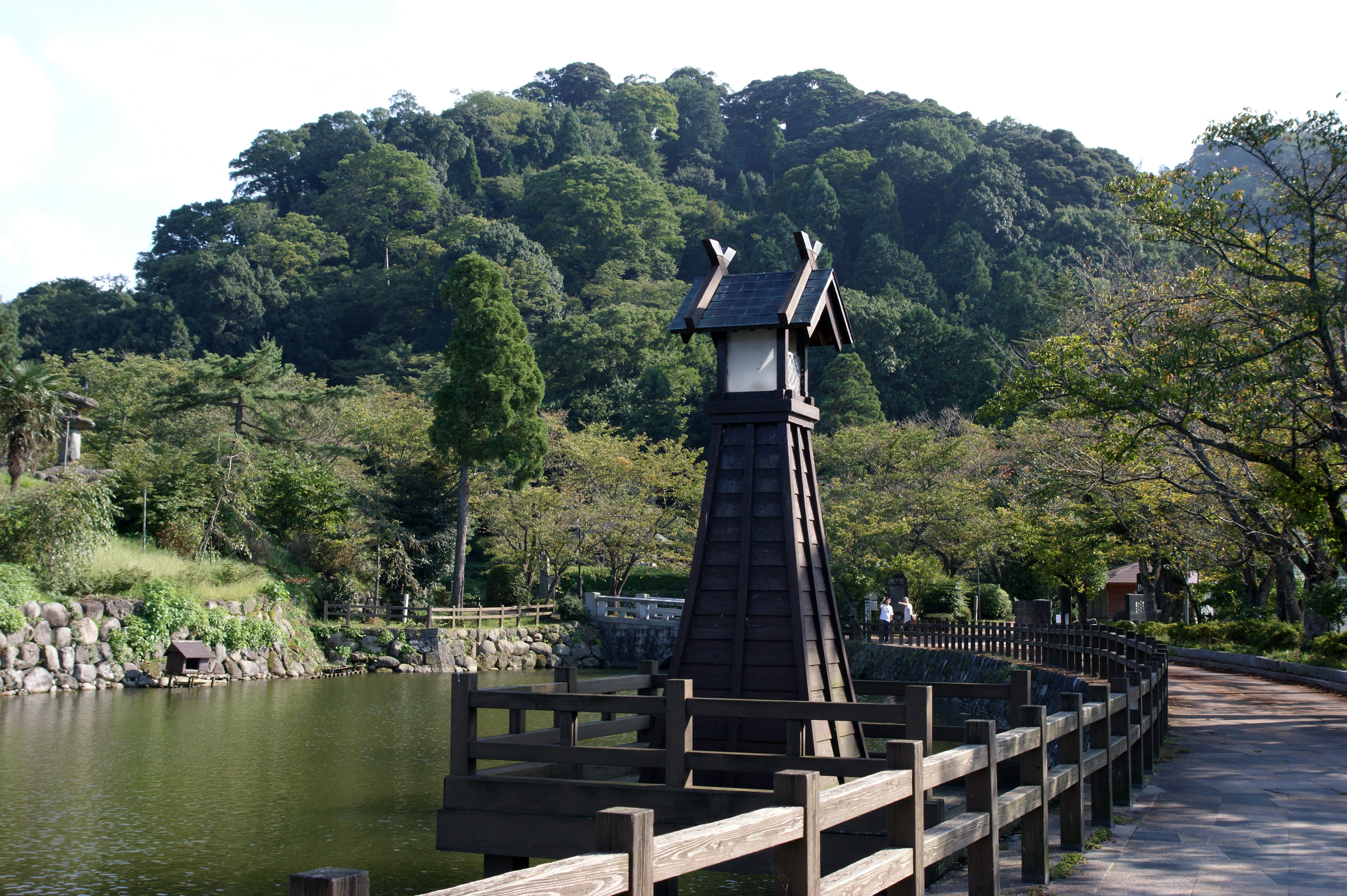 Shikano, Tottori, Tottori prefecture, Japan